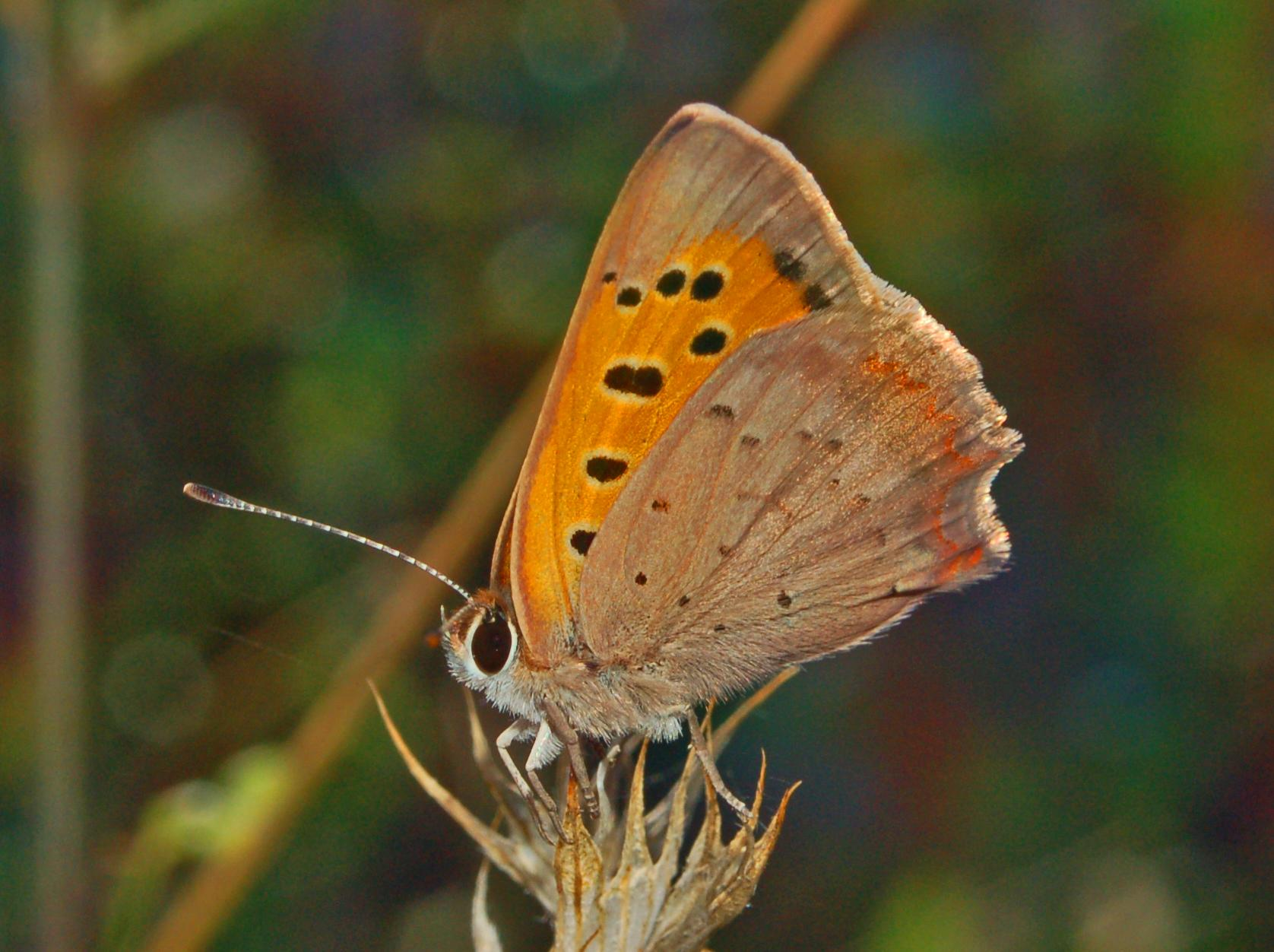 Lycaenidae - Lycaena phlaeas